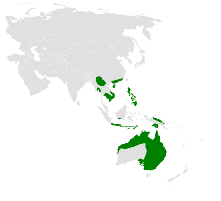 Mirafra javanica distribution map; using BlankMap-World6.svg, based on